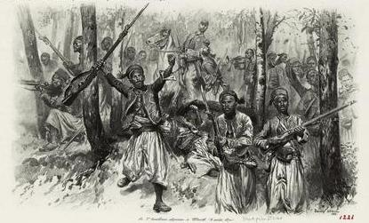 The 3rd Regiment of Algerian Tirailleurs at Woerth (August 6, 1870). This illustration appeared in L'Armee Française by Jules Richard, illustrated by Édouard Detaille, first published in 1885.